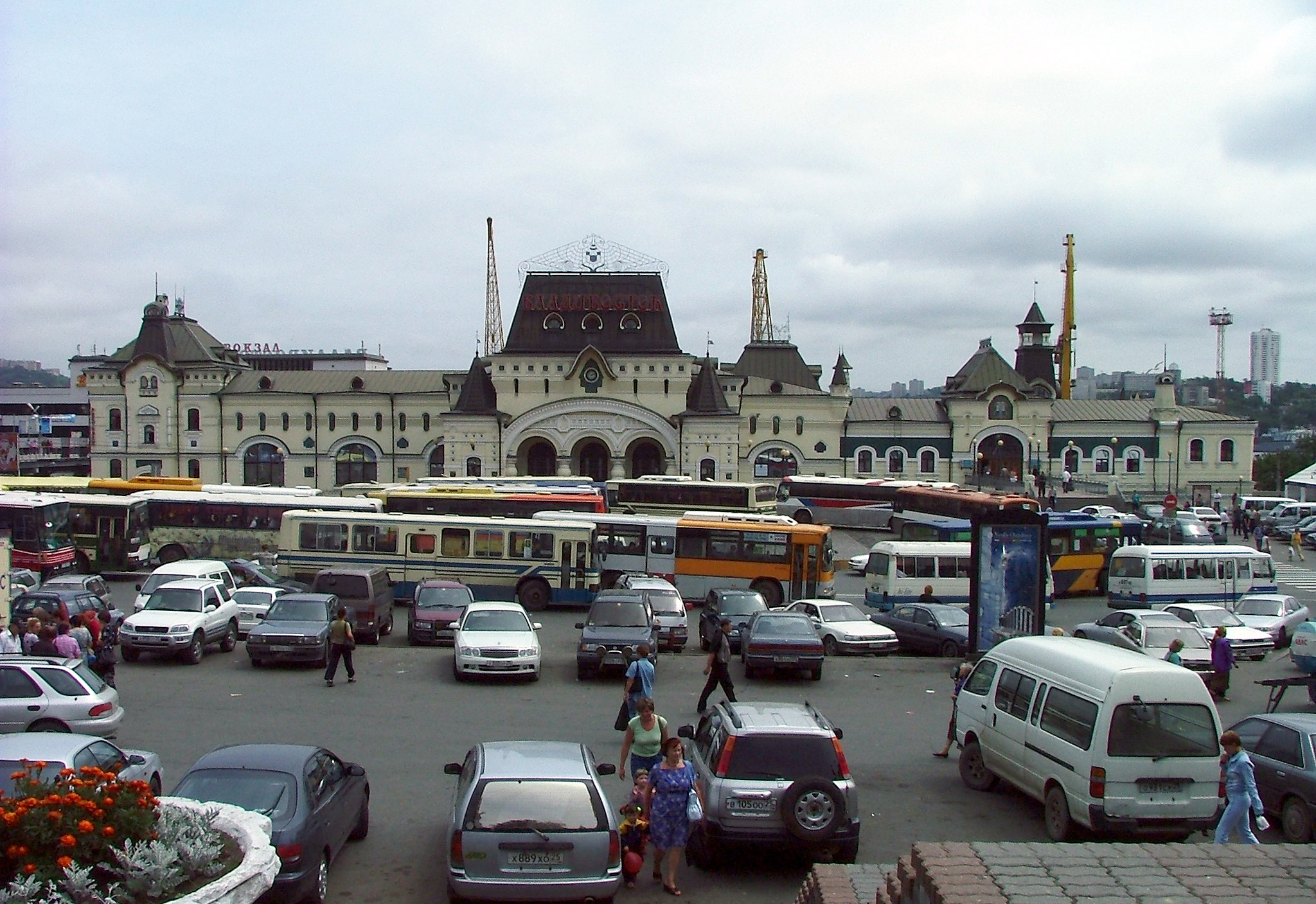 Vladivostok, Vokzalnaya Square and station building (built in 1912 by N. B. Konovalov).